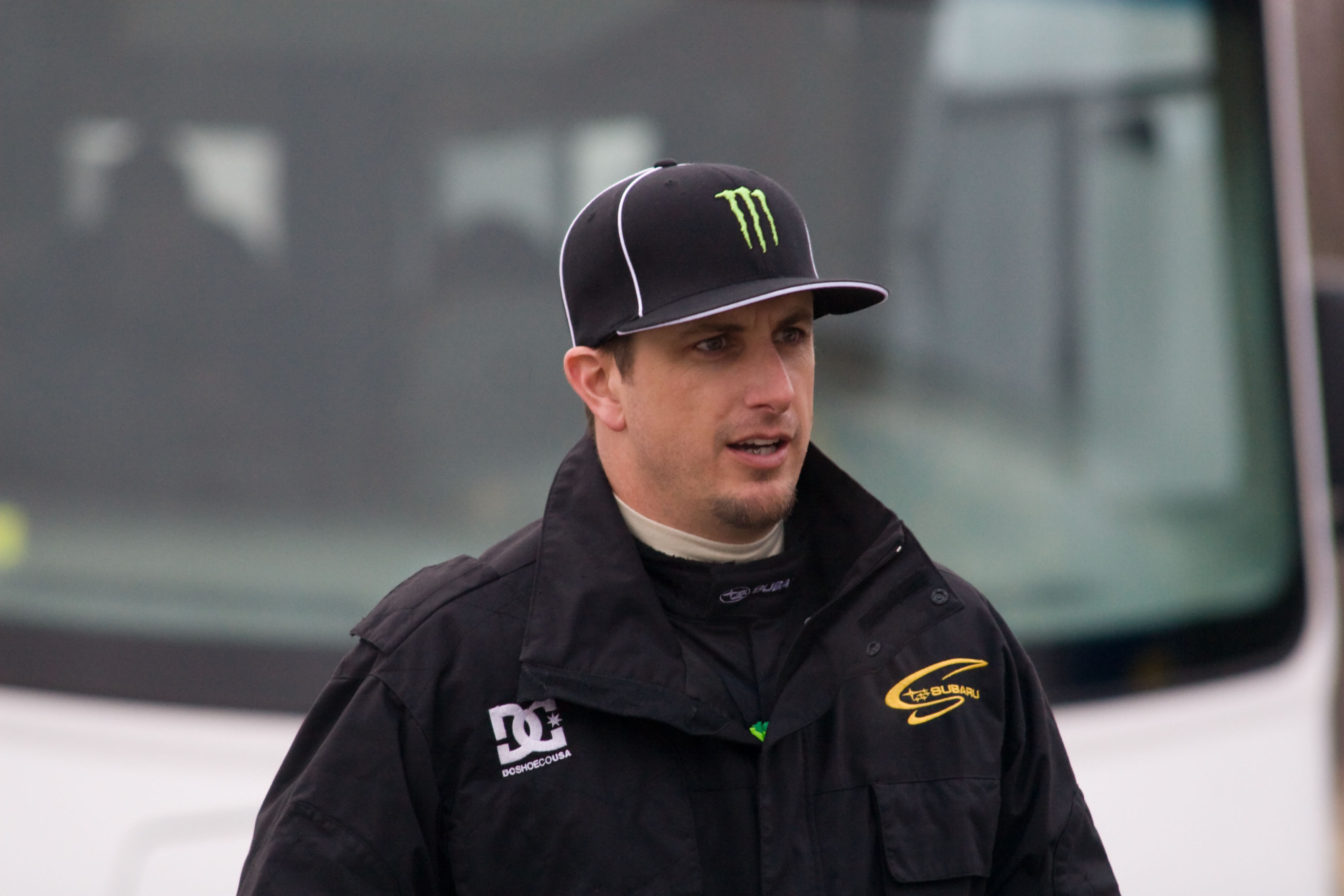 Ken Block (born November 21, 1967, in Long Beach, California) – one of the co-founders and recently appointed Chief Brand Officer of DC Shoes.